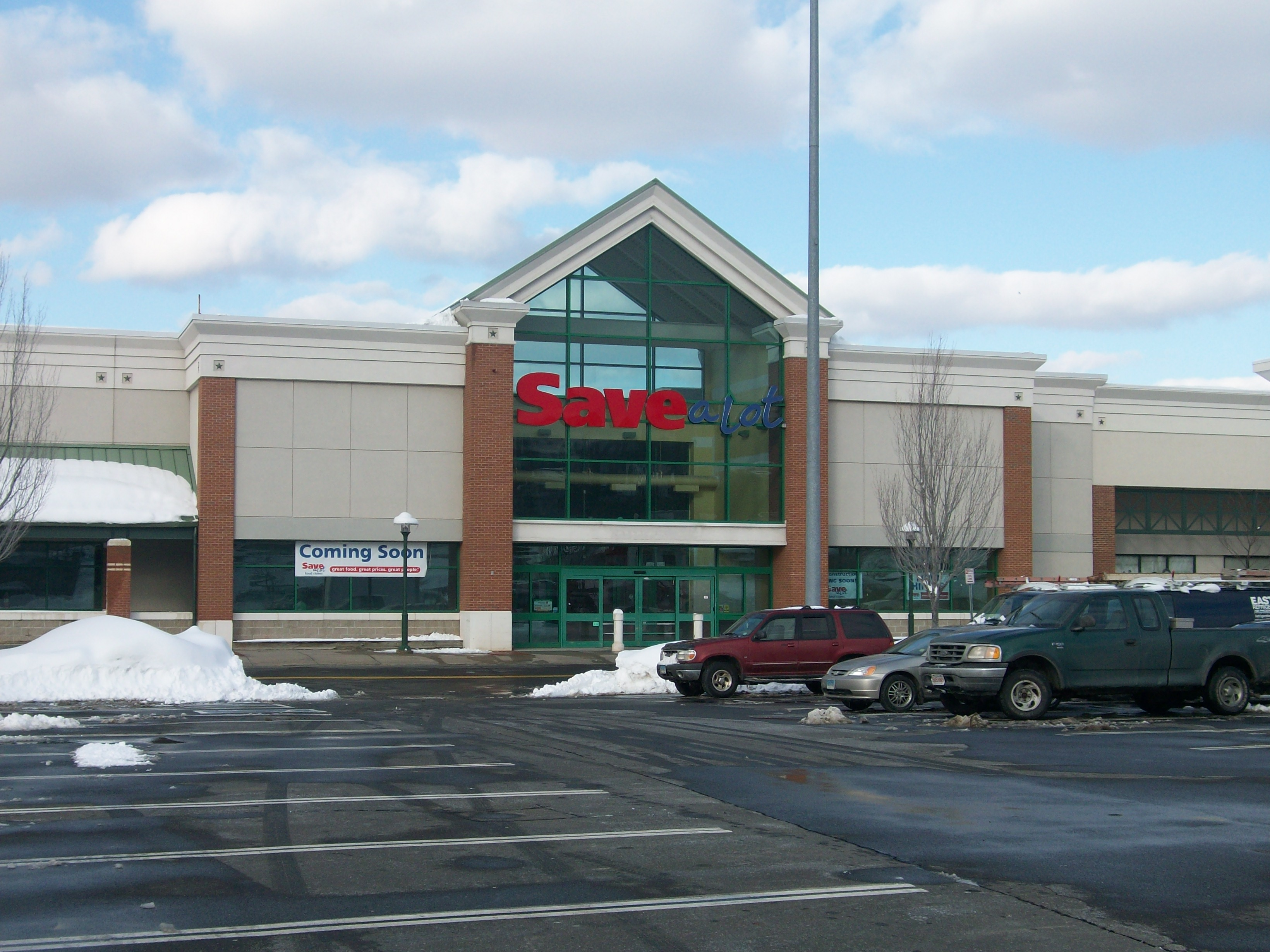 Future Save-A-Lot in Waterbury, CT